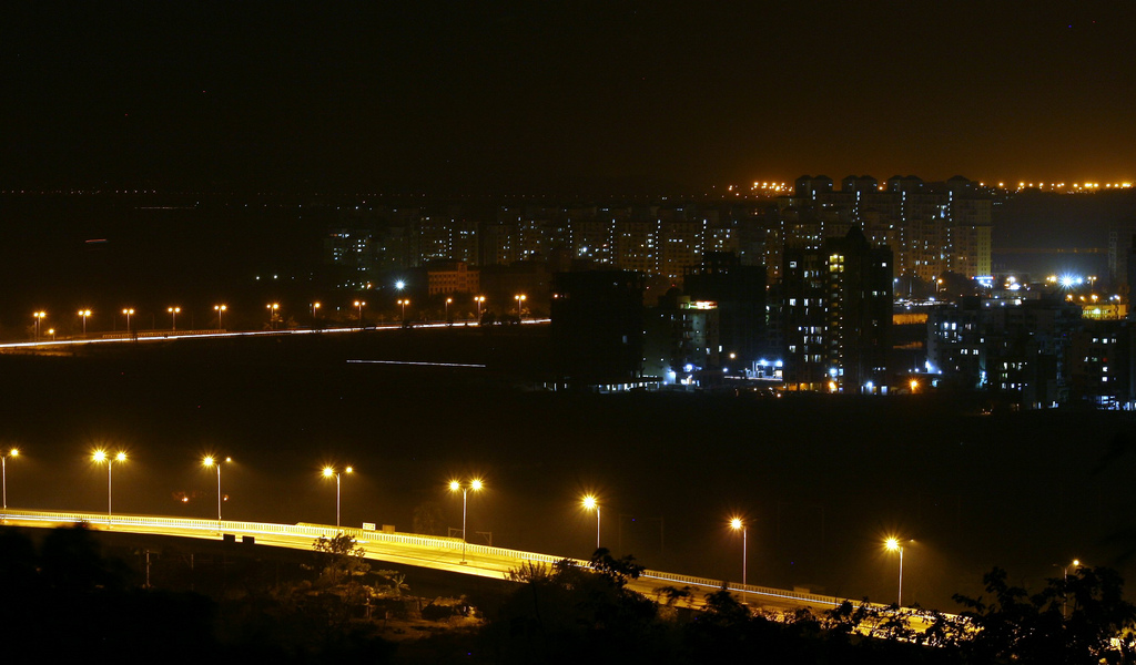 Palm beach road and buildings around it as seen from the Parsik hill